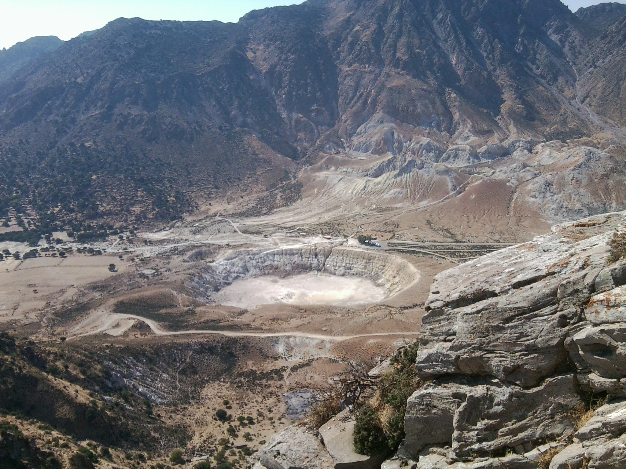 Volcano crater of Nisyros